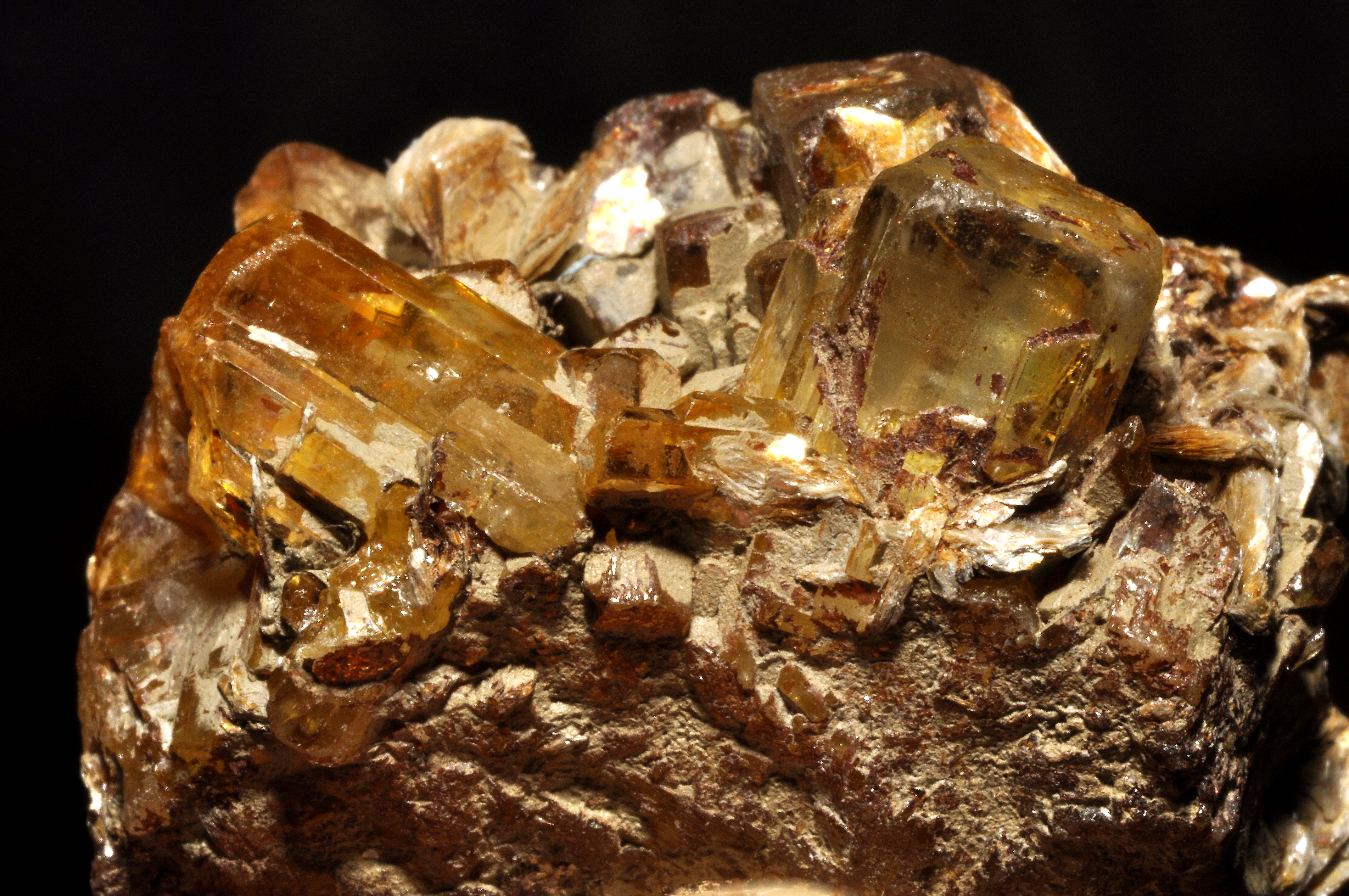 beryl var. golden beryl - heliodor : Chhappu, Braldu Valley, Skardu District, Baltistan, Gilgit-Baltistan (Northern Areas), Pakistan